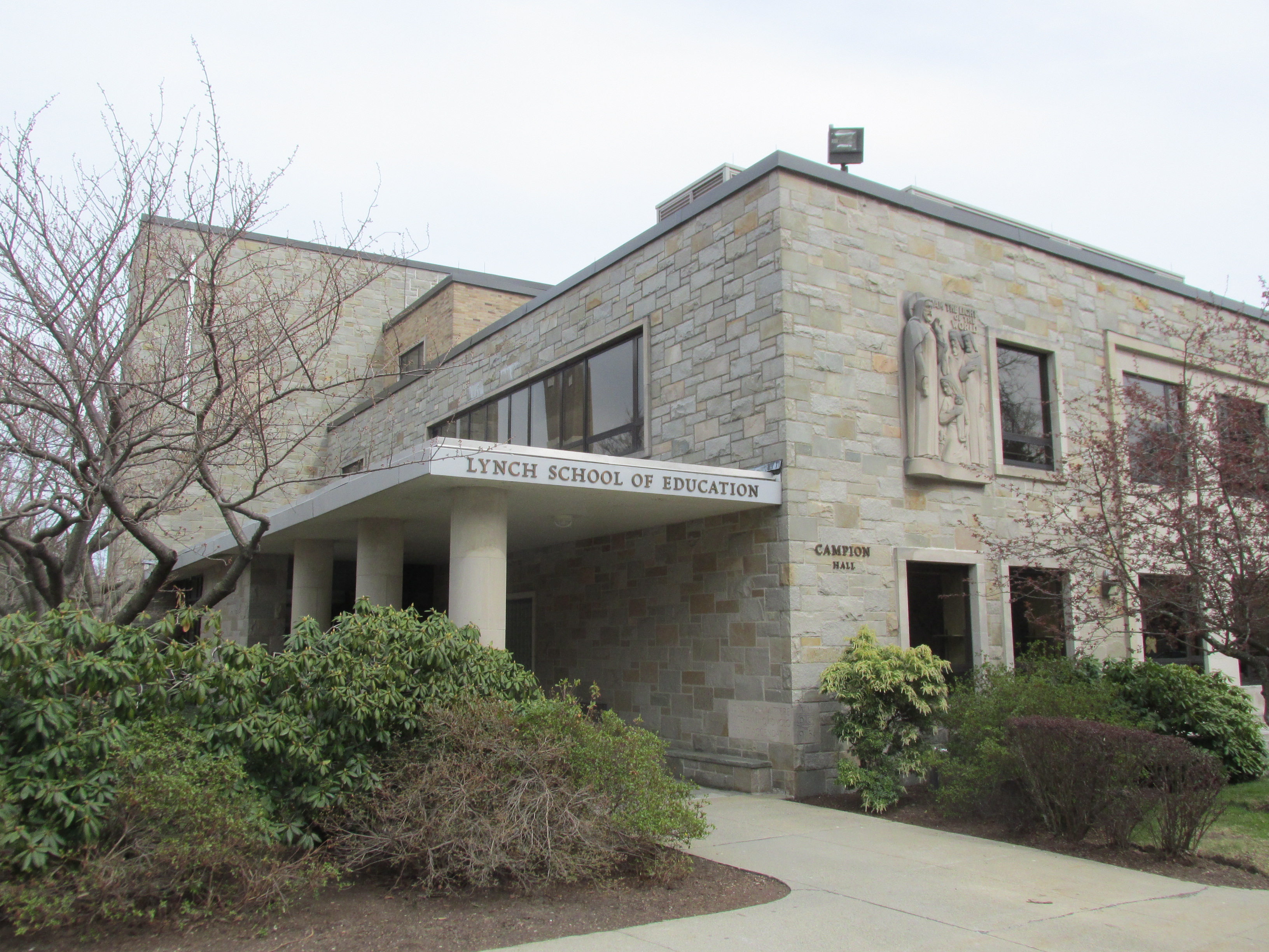 Campion Hall, Boston College, Chestnut Hill Massachusetts - 2014